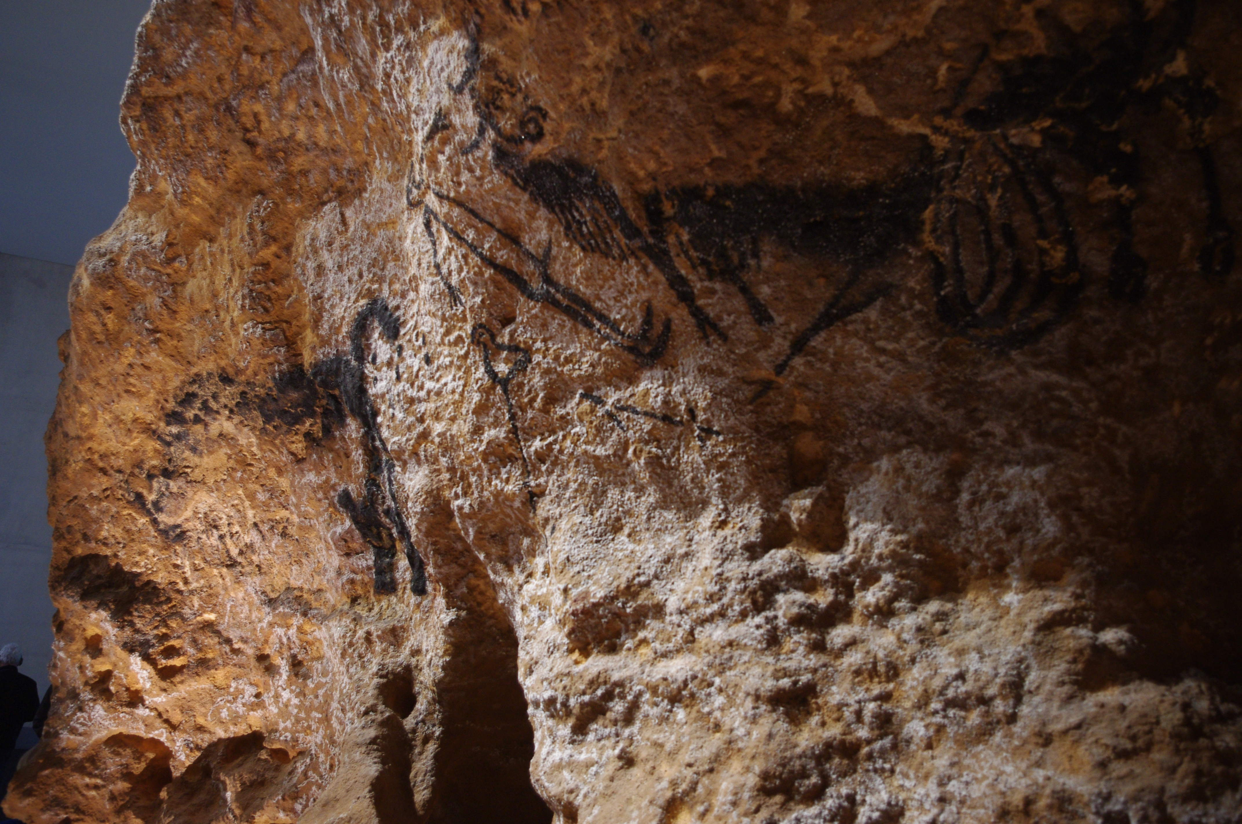 Lascaux 4, Montignac, Dordogne, France. Pictures takes in the part called atelier.